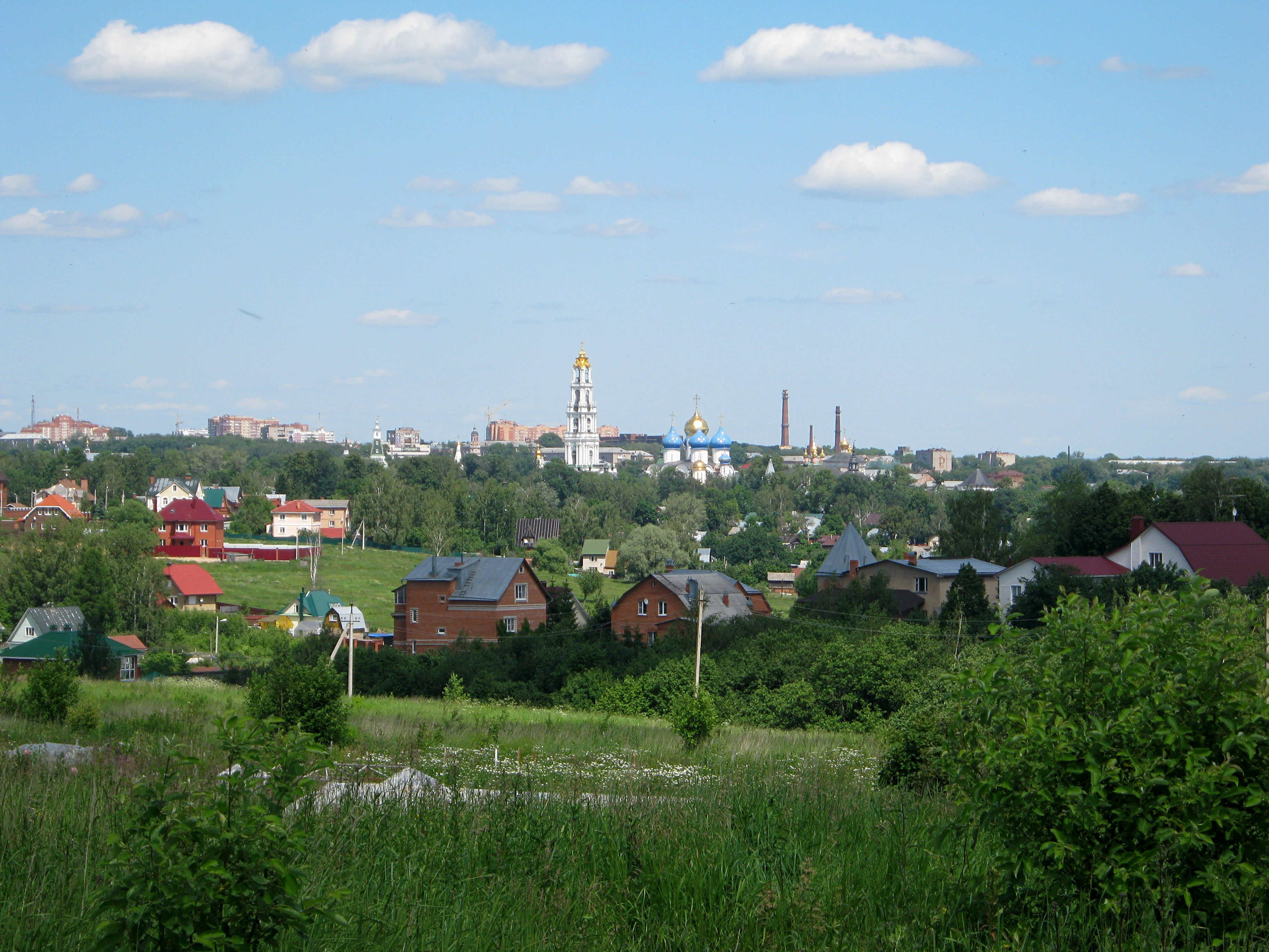 Sergiyevo-Posadsky District, Moscow Oblast, Russia